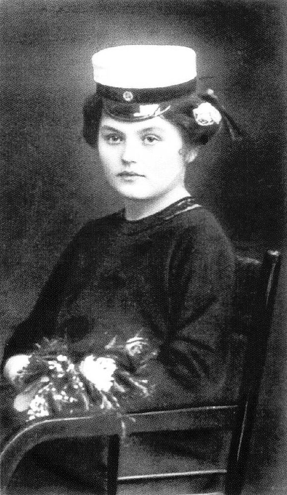 Kerttu Mustonen finnish songwriter